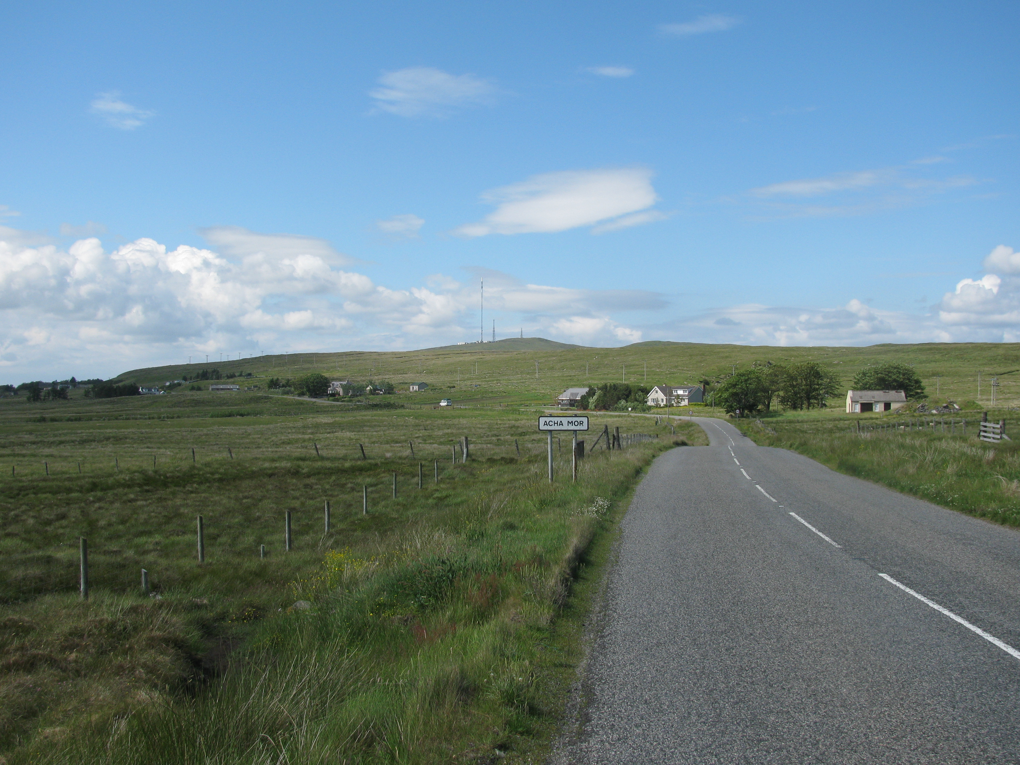 The village of Acha Mor resp. Achmore, Lewis